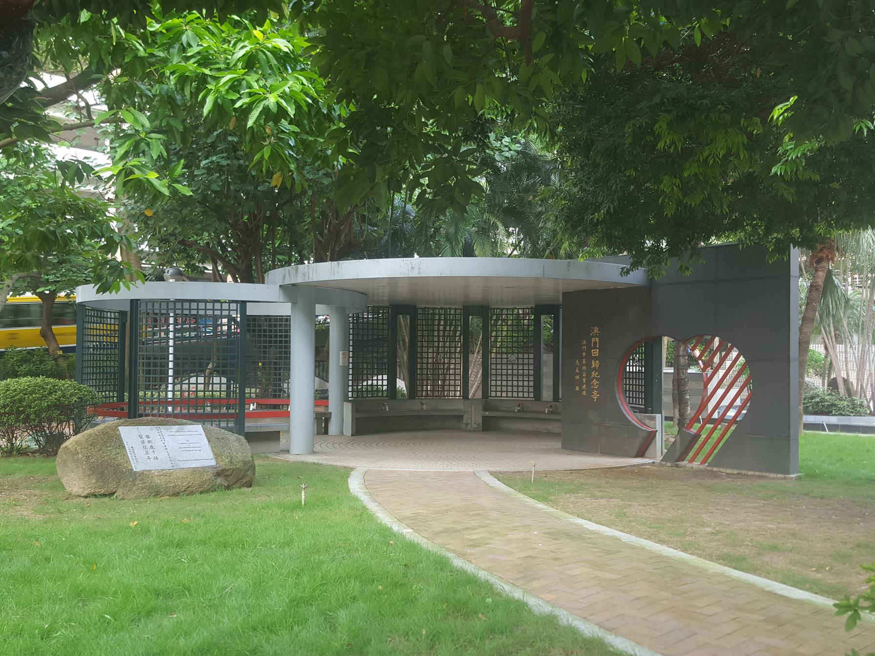 Jardim Comendador Ho Yin, Macau